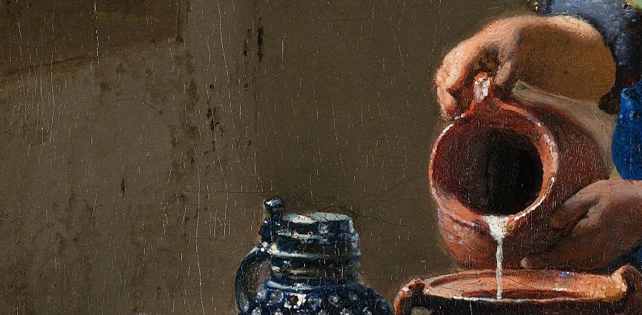 Wall and milk pot